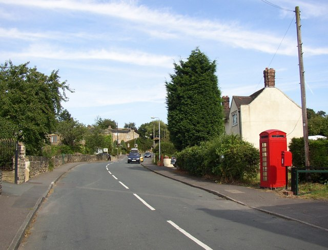 Drub Lane, Gomersal Drub is a hamlet of Gomersal, strung out along a road leading to Hunsworth. It still has the classic pair of red telephone box and letter box.